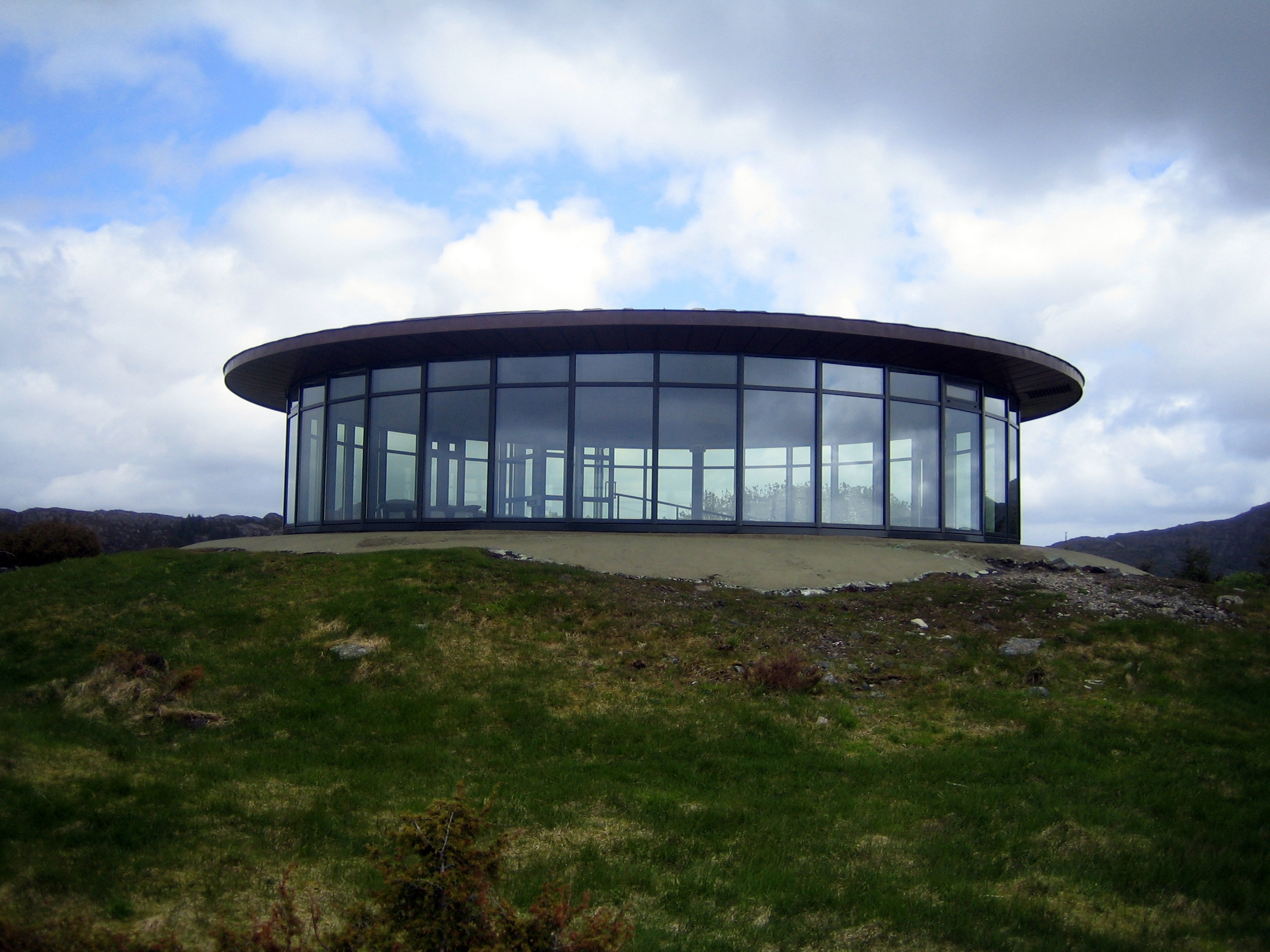 Photograph of the enclosure housing a 28 cm coast-defence gun and cafe at Fjell festning, Sotra, Norway.